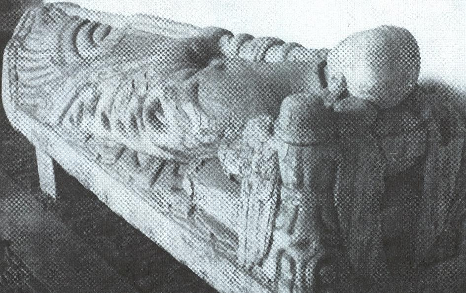 Fray Andres Pardo's sepulcral sculture, related to Monforte de Lemos's legend of "La corona de fuego" (crown of fire), and kept on Lugo's Museum.